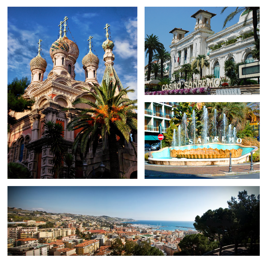 Sanremo